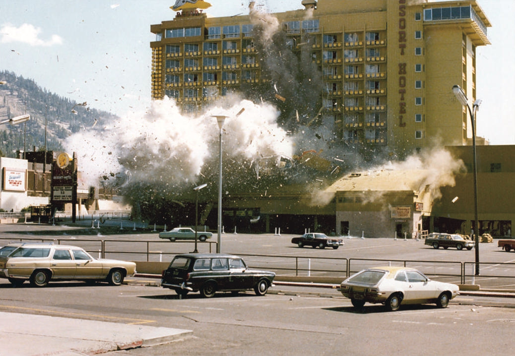 A bomb explodes at Harvey's Resort Hotel in Stateline, Nevada, US, after an unsuccessful attempt to disarm it.